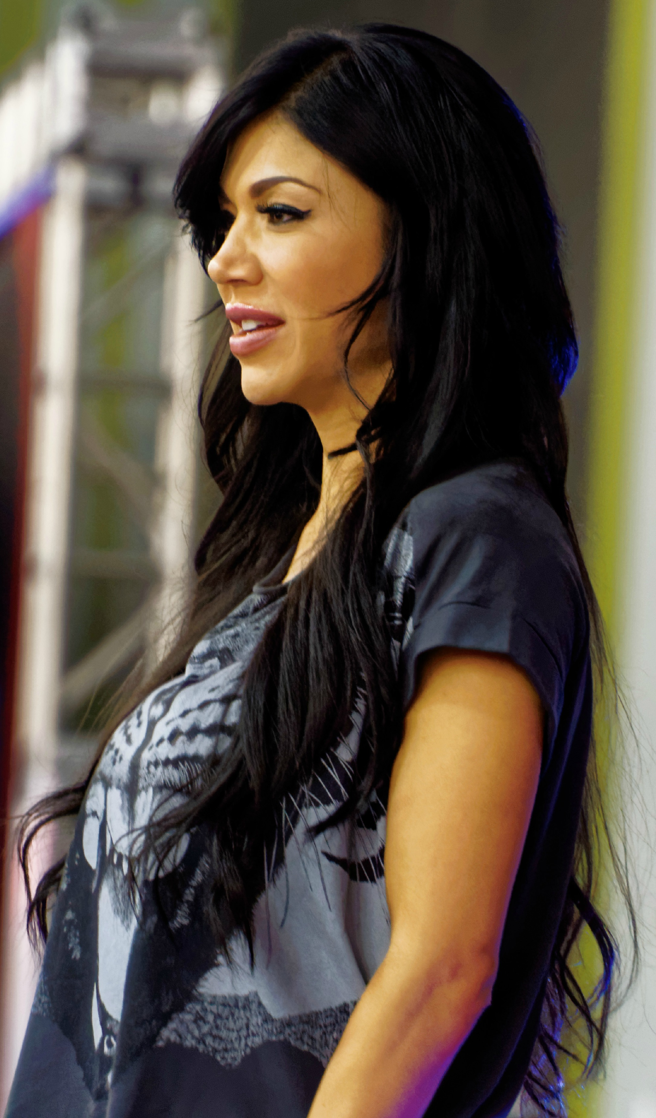 Rosa Mendes At WrestleMania Axxess in March 2015.